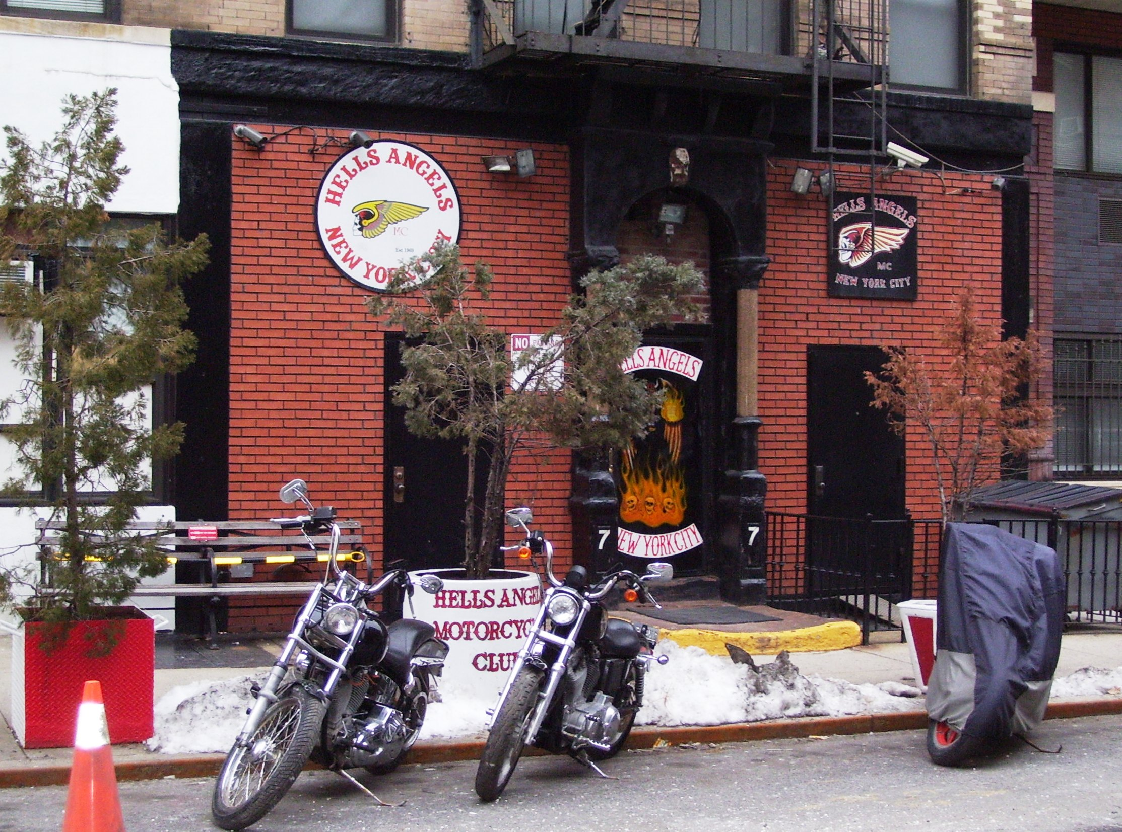 The Hells Angels clubhouse at 77 East 3rd Street between First and Second Avenues in the East Village neighborhood of Manhattan, New York City. In February 2011, the bench seen on the left become the focus of media attention when it was discovered that the Angels had put a locked metal bar across it to prevent peoeple from the boutique hotel next door from sitting on it.